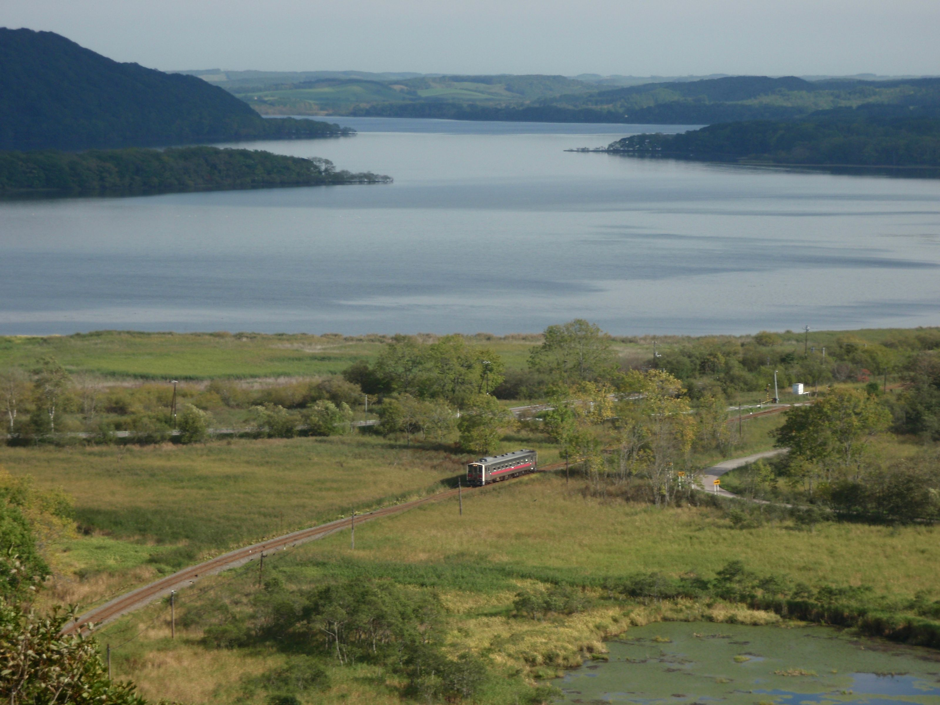 Lake Touro and JR Hokkaido Senmou Line